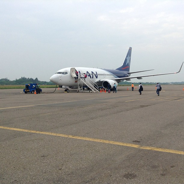 Boeing 737-700 at El Alcaravan Airport